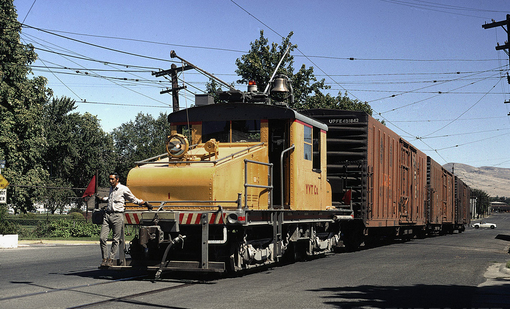 A Yakima Valley Transportation Co. train, led by 1922-built locomotive 298, westbound on W. Pine Street at 6th Avenue, in Yakima, in August 1971.